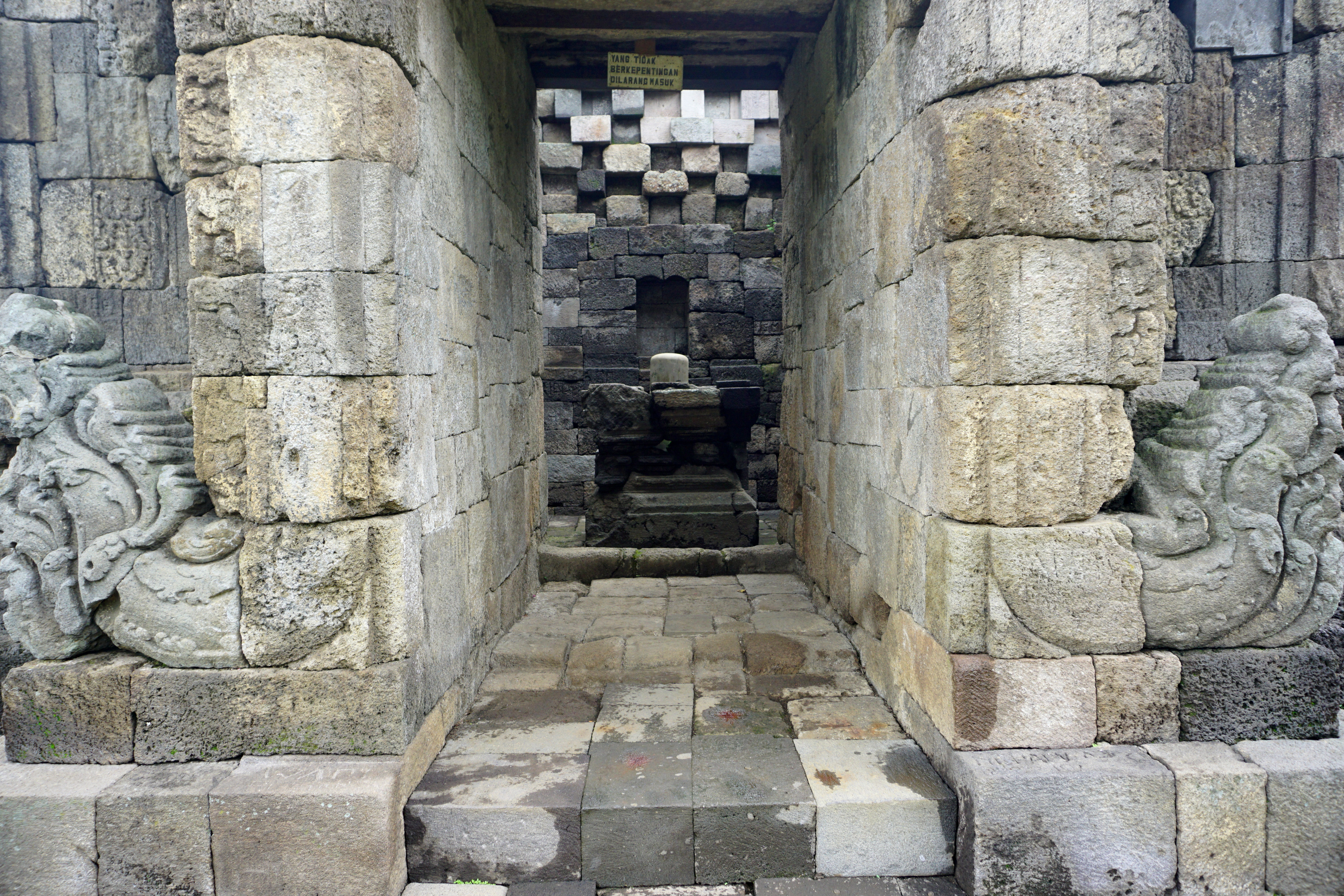 041 Sanctum with Linga, Candi Badut, Malang Candis, East Java Malang, East Java